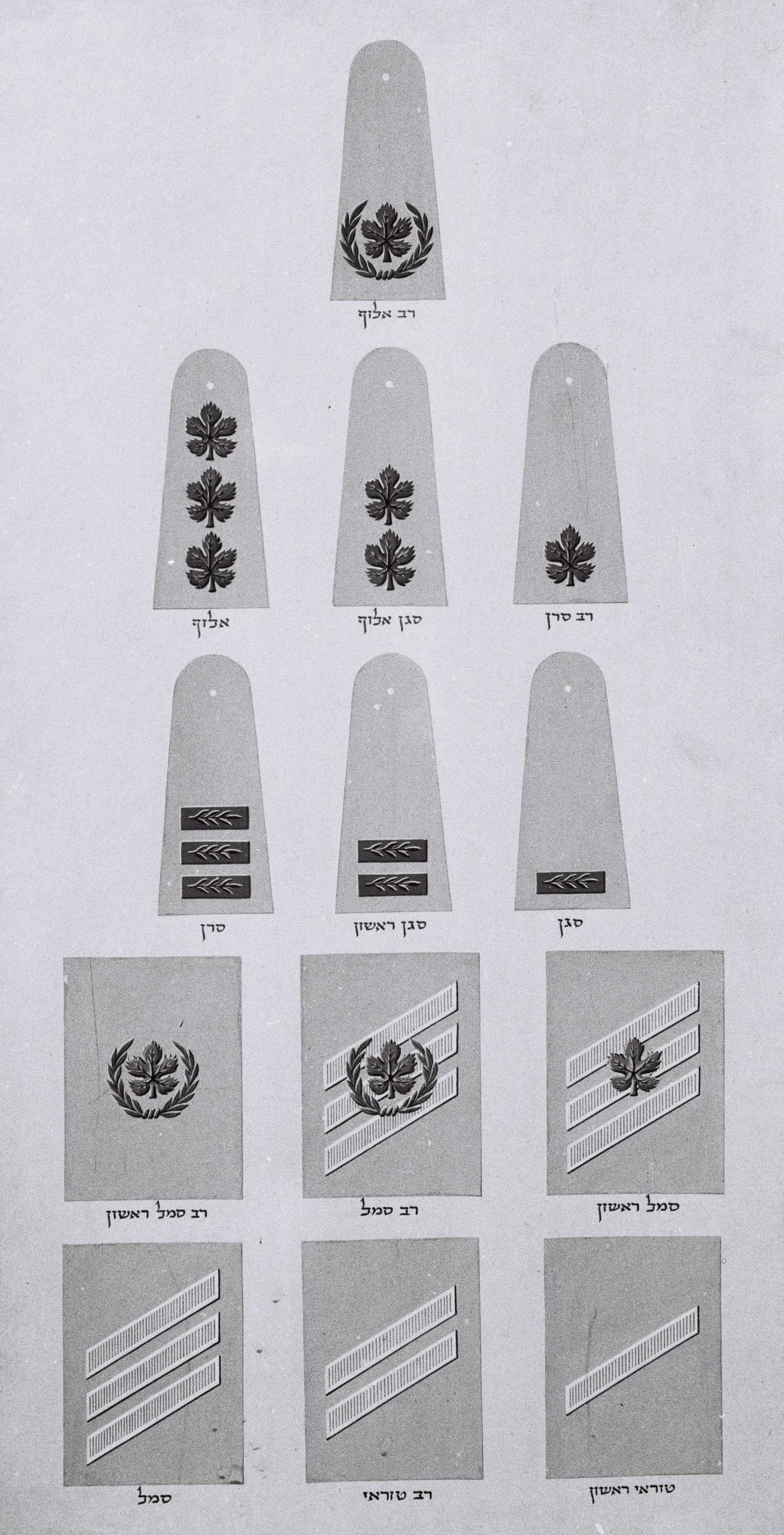 Original Description: RANKS OF THE ISRAELI ARMY.